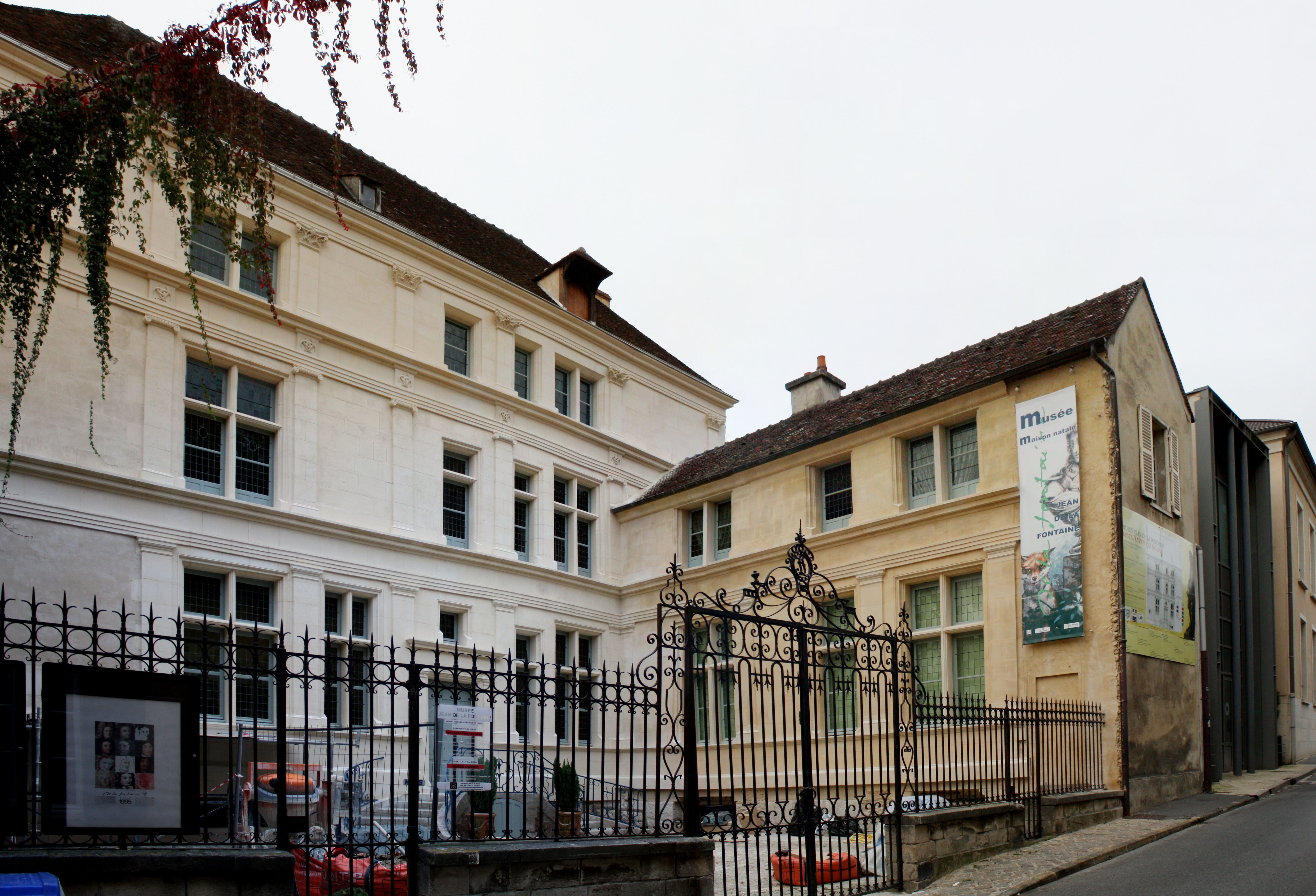 Jean de la Fontaine museum in Château-Thierry, France